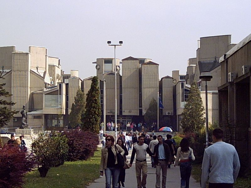 Ss. Cyril and Methodius University of Skopje, Macedonia